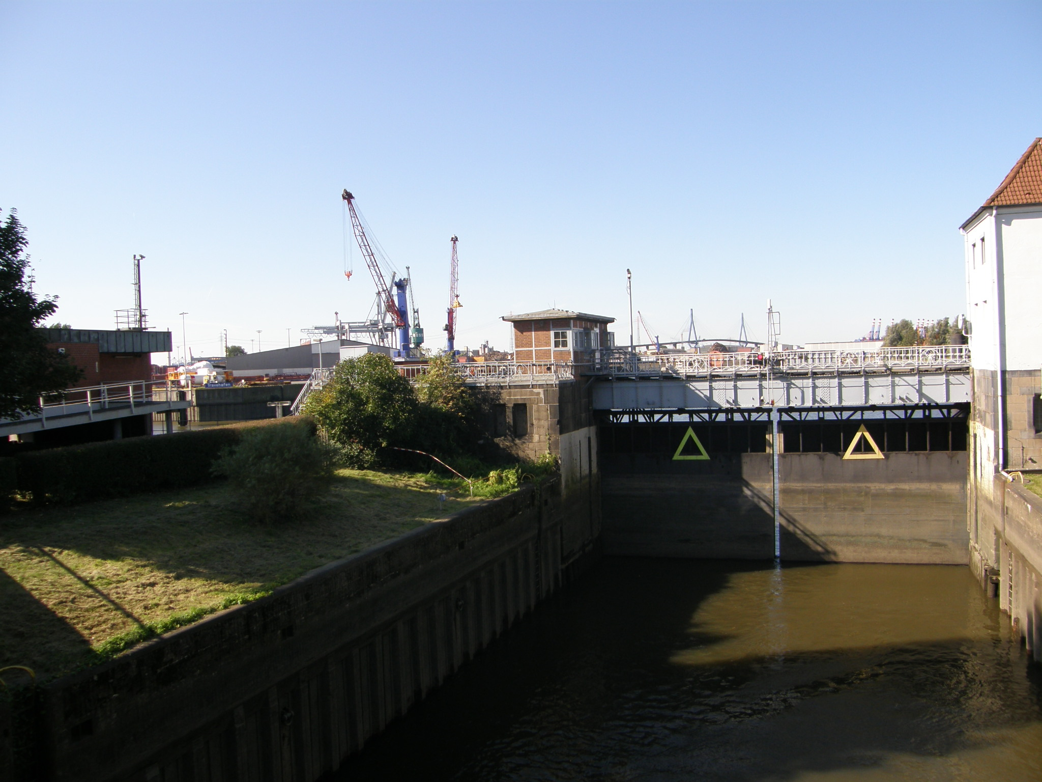 Port of Hamburg